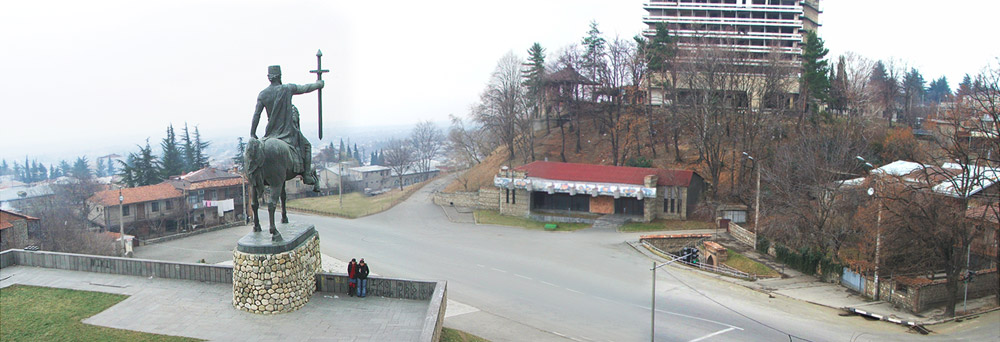 Telavi city centre